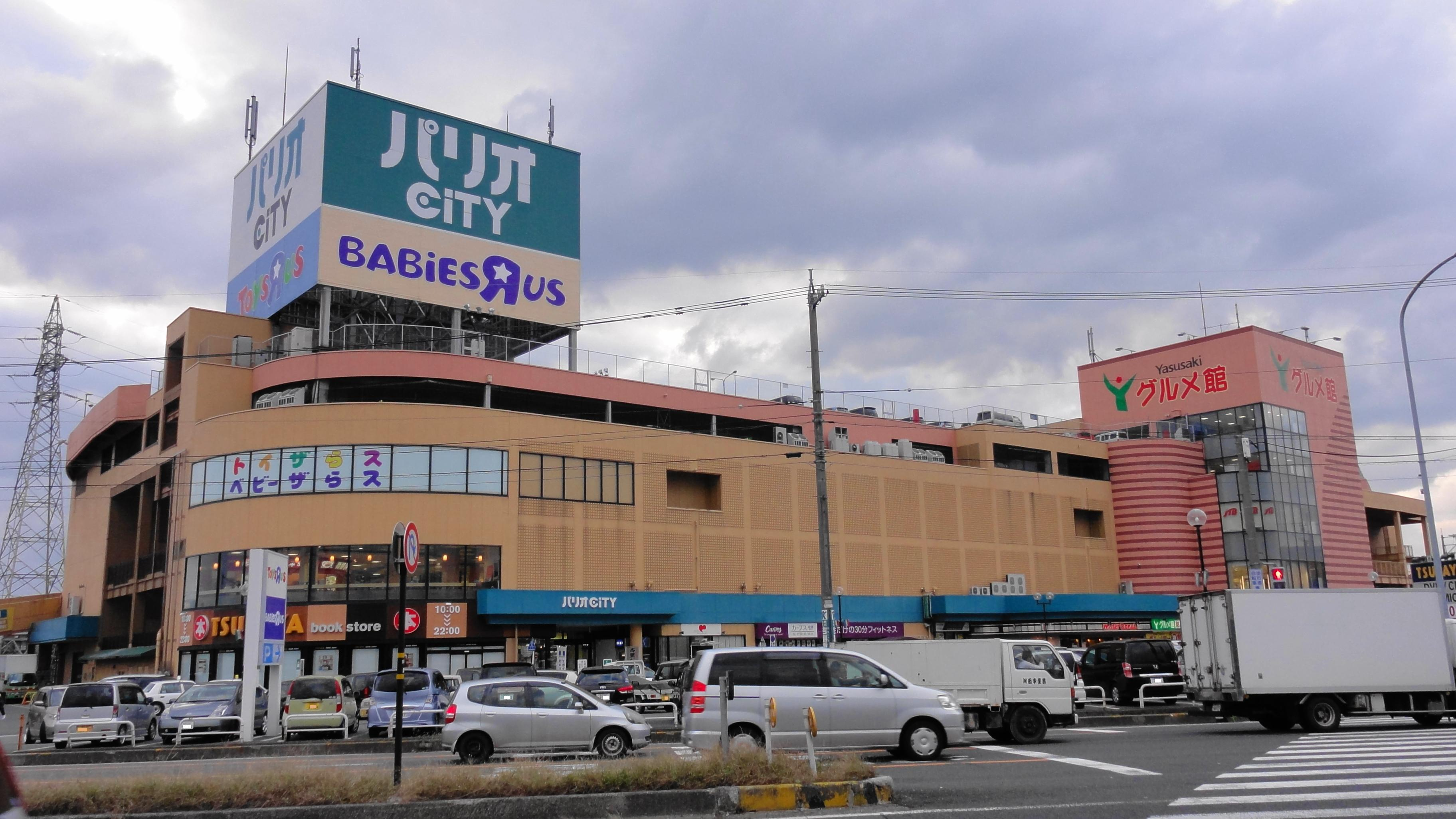 Pario CiTY,Fukui prefecture, Japan